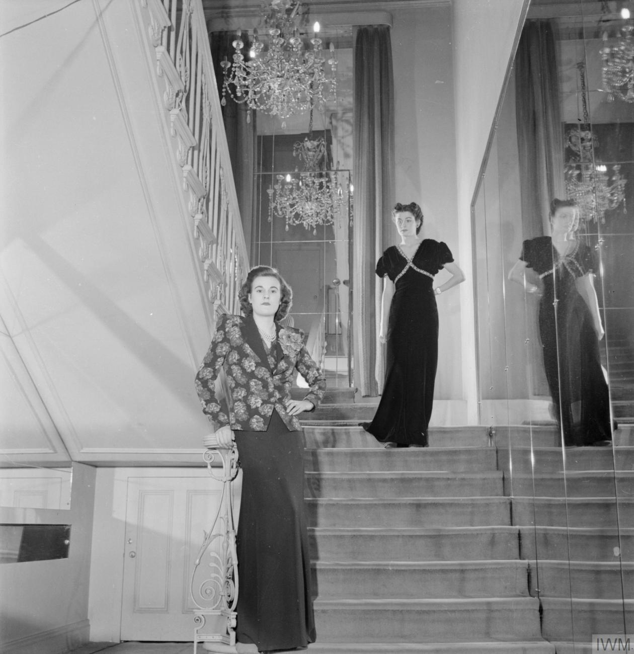 London Fashion Designers- the work of Members of the Incorporated Society of London Fashion Designers in Wartime, London, England, UK, 1944 Two models pose for the camera on a staircase at the fashion house of designer Norman Hartnell. At the top of the stairs, the model wears a black velvet dinner gown studded in blue and gold. In the foreground, the model wears a dinner suit with the jacket made from a red rose printed fabric, designed by Hartnell and a skirt of black crepe. A large chandelier is clearly visible in the background.